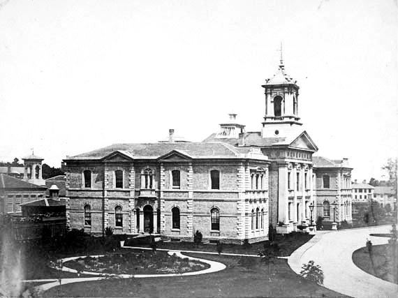 Normal School on Gould Street. Parts of the facade still exist on what is now the campus of Ryerson University.